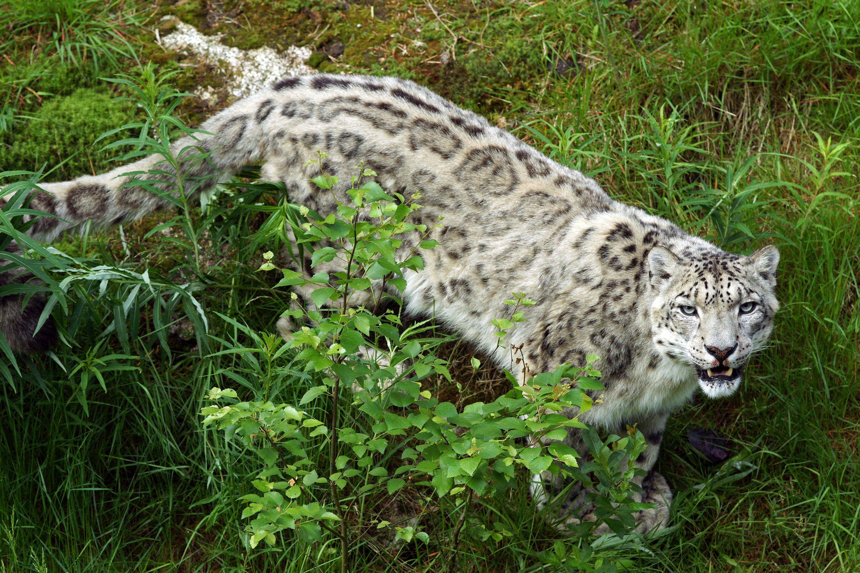 Snow leopard (Uncia uncia) in Ähtäri Zoo.